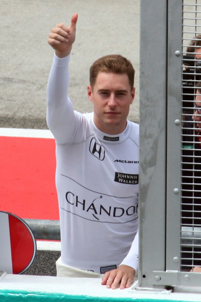 Stoffel Vandoorne at the Malaysia GP 2017